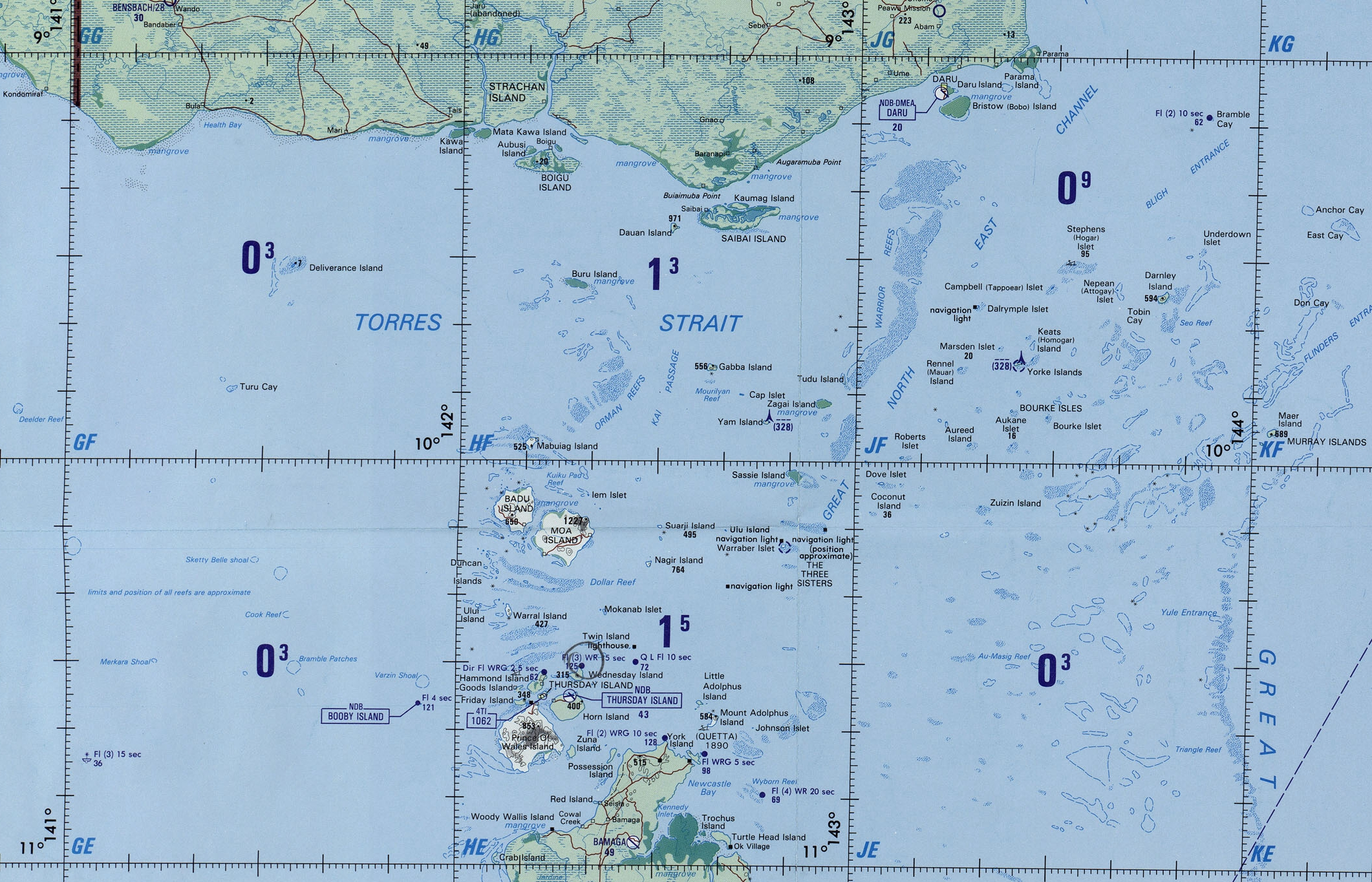 Operational Navigational Chart 1:1,000,000 sheet N-14 (cropped for Torres Strait Islands, Queensland, Australia)